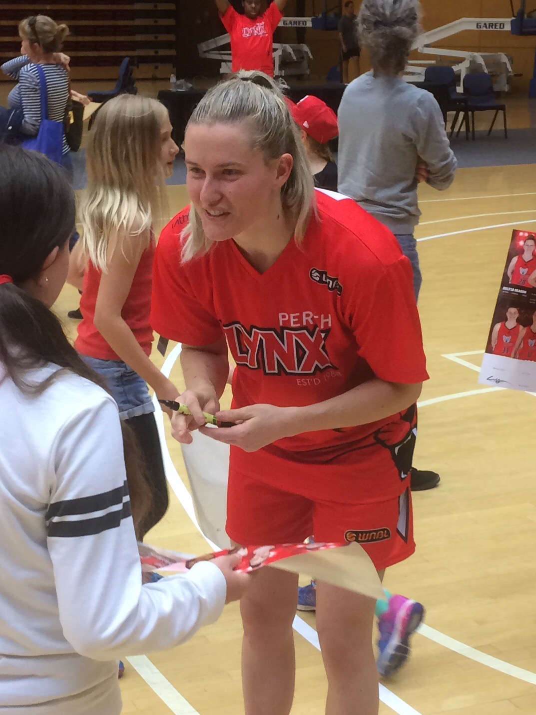 Sami Whitcomb of the Perth Lynx signing autographs